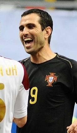 Pedro Pauleta at 2011 Legends Cup